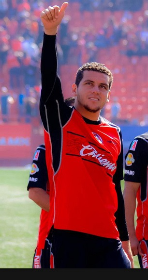 Alejandro Molina Núñez